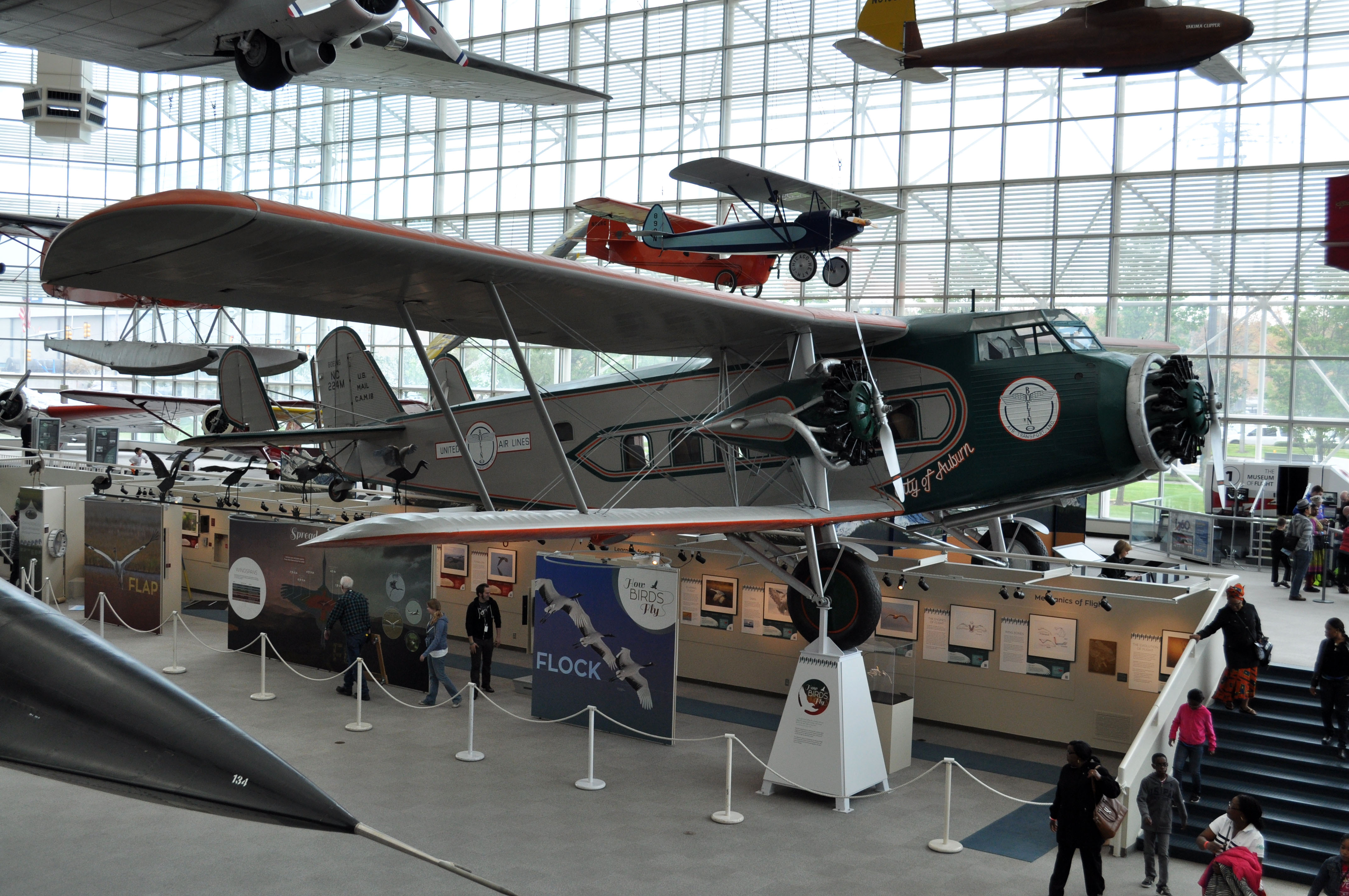 NC224M BOEING 80A-1 BFI AIRPORT MUSEUM OF FLIGHT